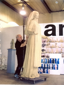 This is a photo of a clay sculpture of St. Jane DeChantal that was being worked on by Ben Marcune at Art and Research Technologies.